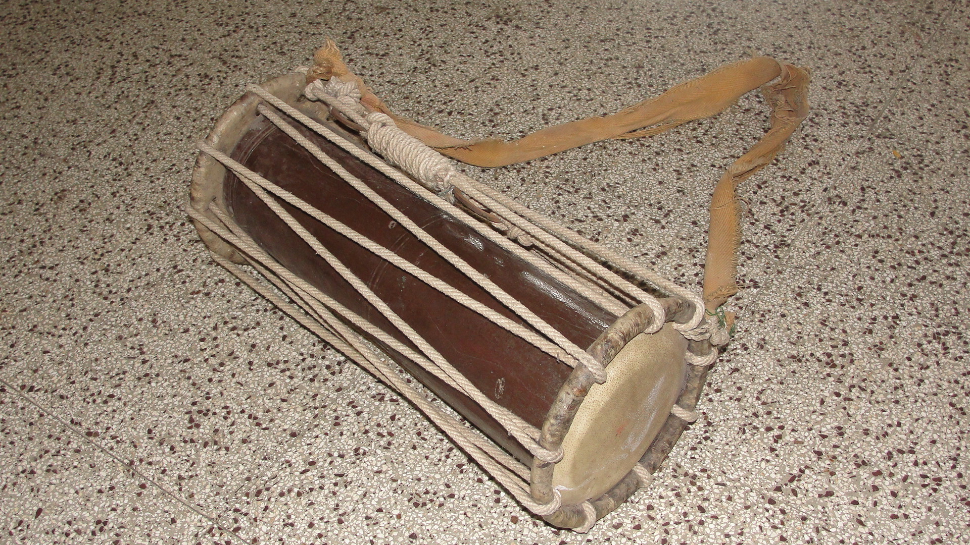 Pambai is a traditional musical instrument of the Tamils.